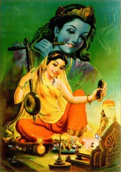 A depiction of Meera by Raja Ravi Varma (cropped version of File:Meerabai 1.jpg